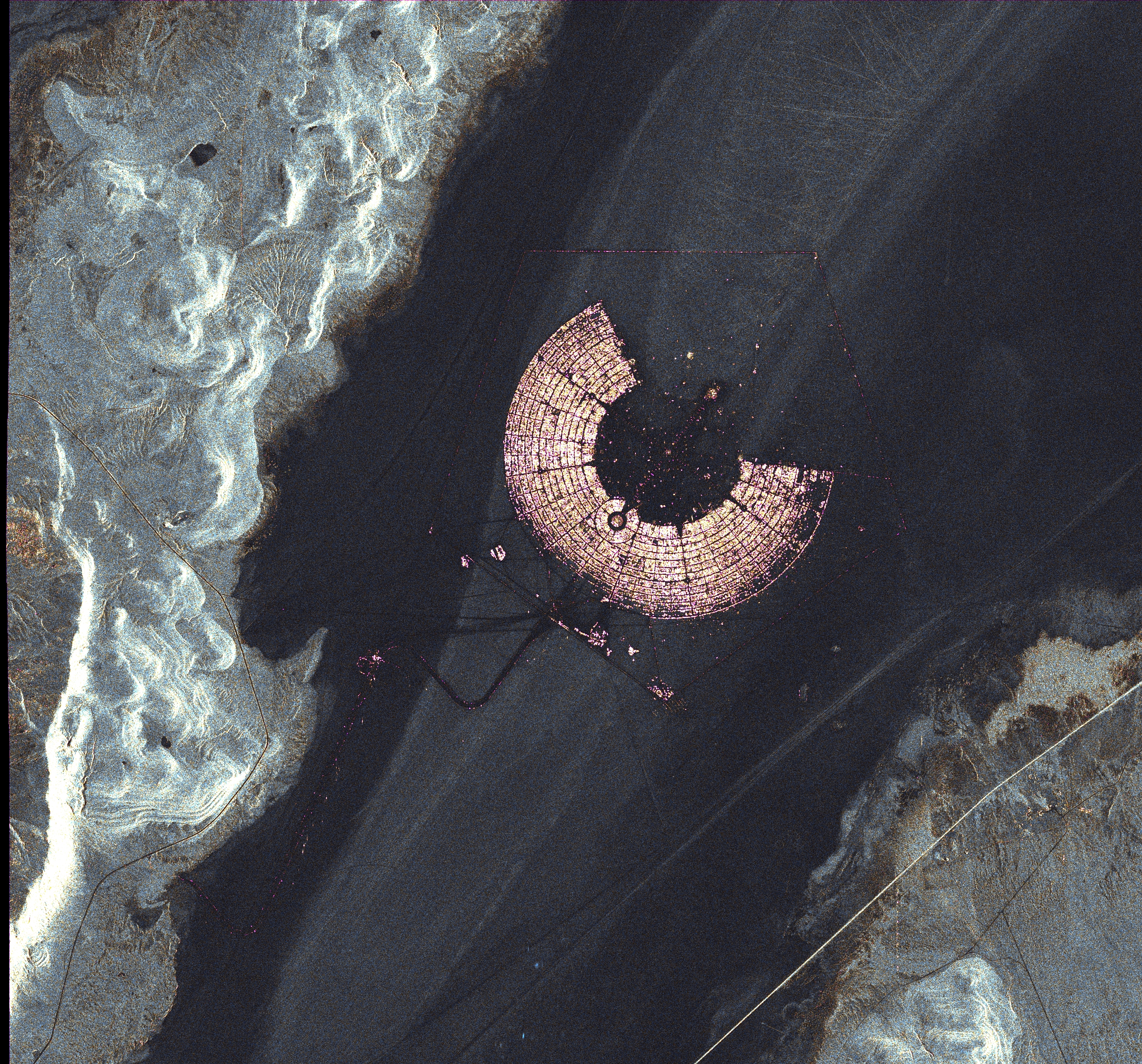 The tents and vehicles are clearly visible in this radar image made by TerraSAR-X. The artificial structures have been coloured to make them more easily visible; the actual radar image is black and white.